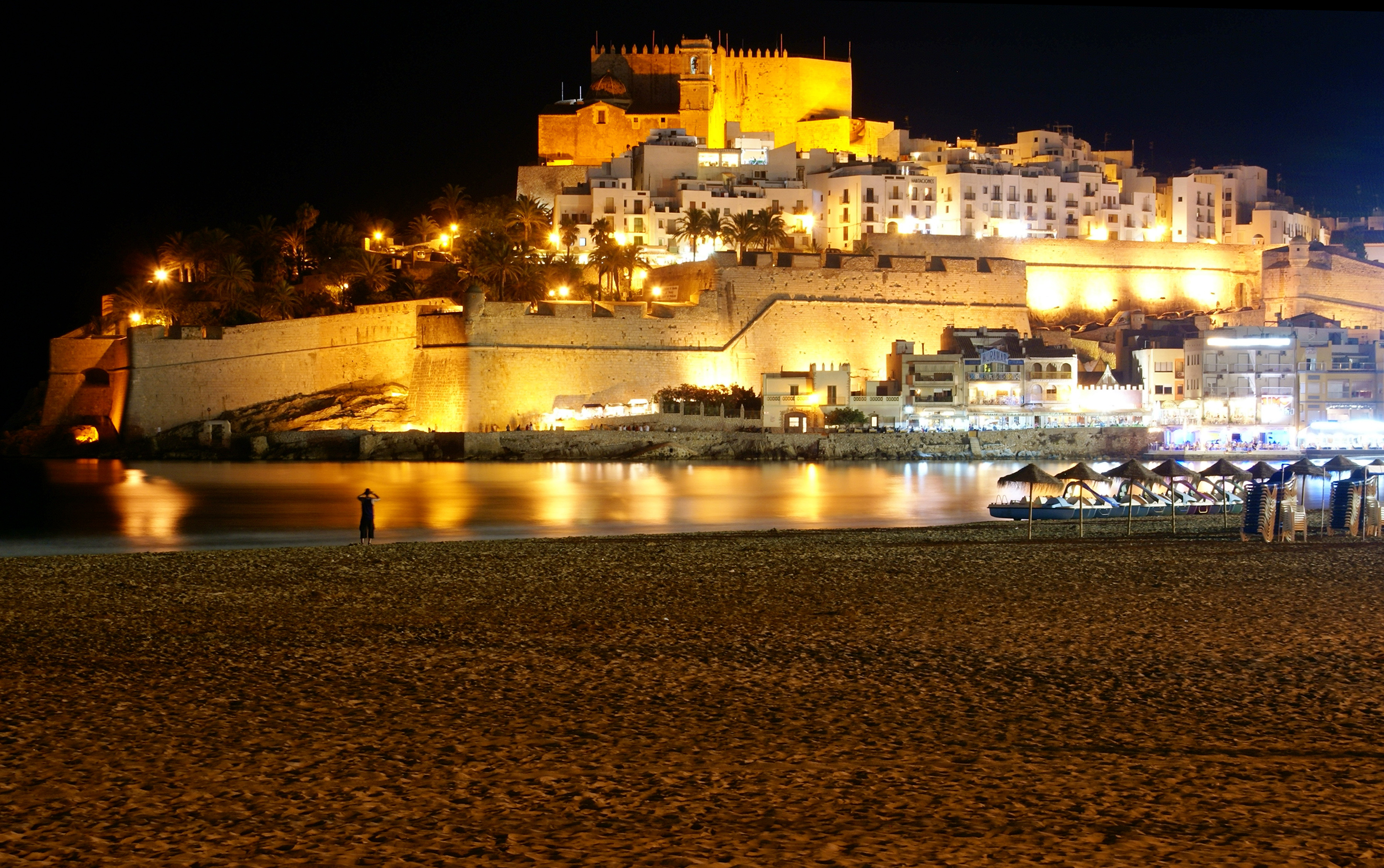 Historic centre of Peñíscola (Castellón, Spain) at night.